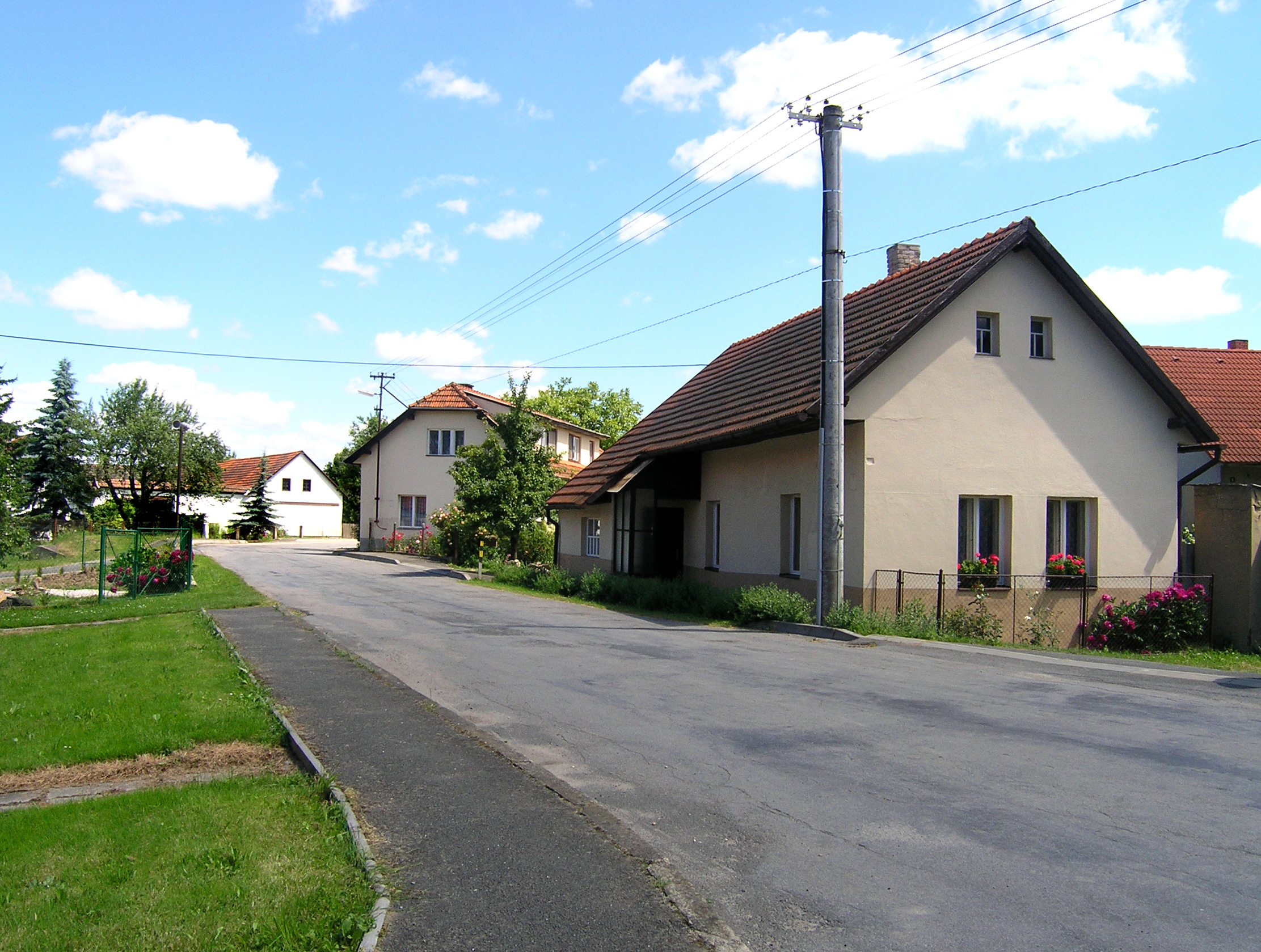 Main street in Hořice village, Czech Republic